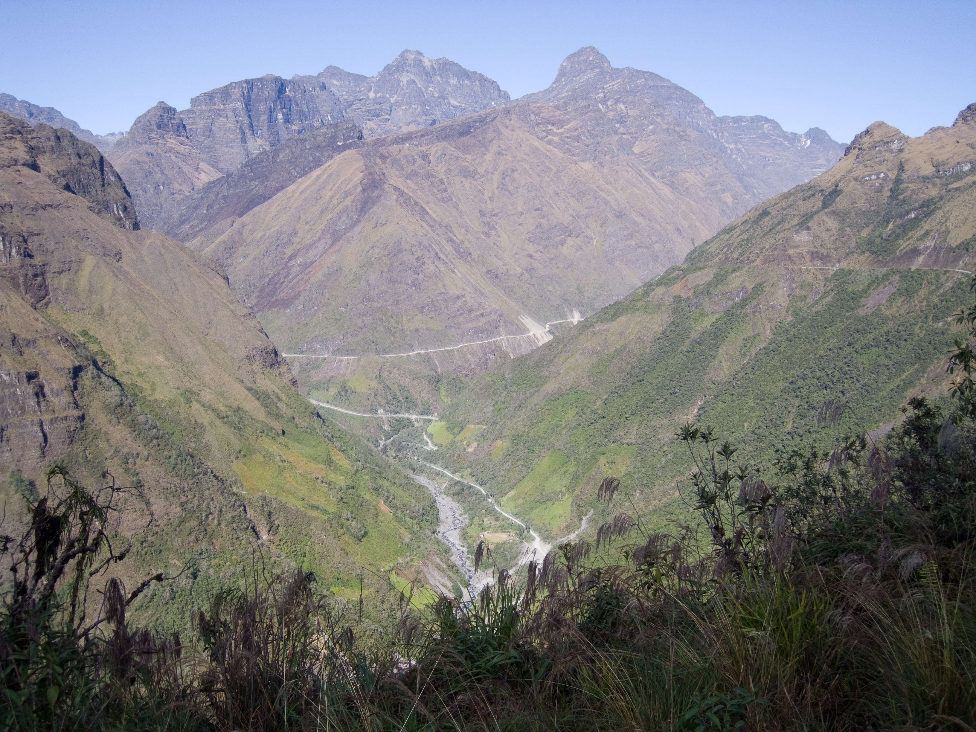 Taken in Unduavi Valley, Bolivia on 22 July 2009 by Jimmy Harris.